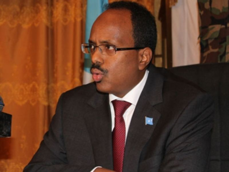 Former Prime Minister of Somalia, Mohamed Abdullahi Mohamed (Farmajo).